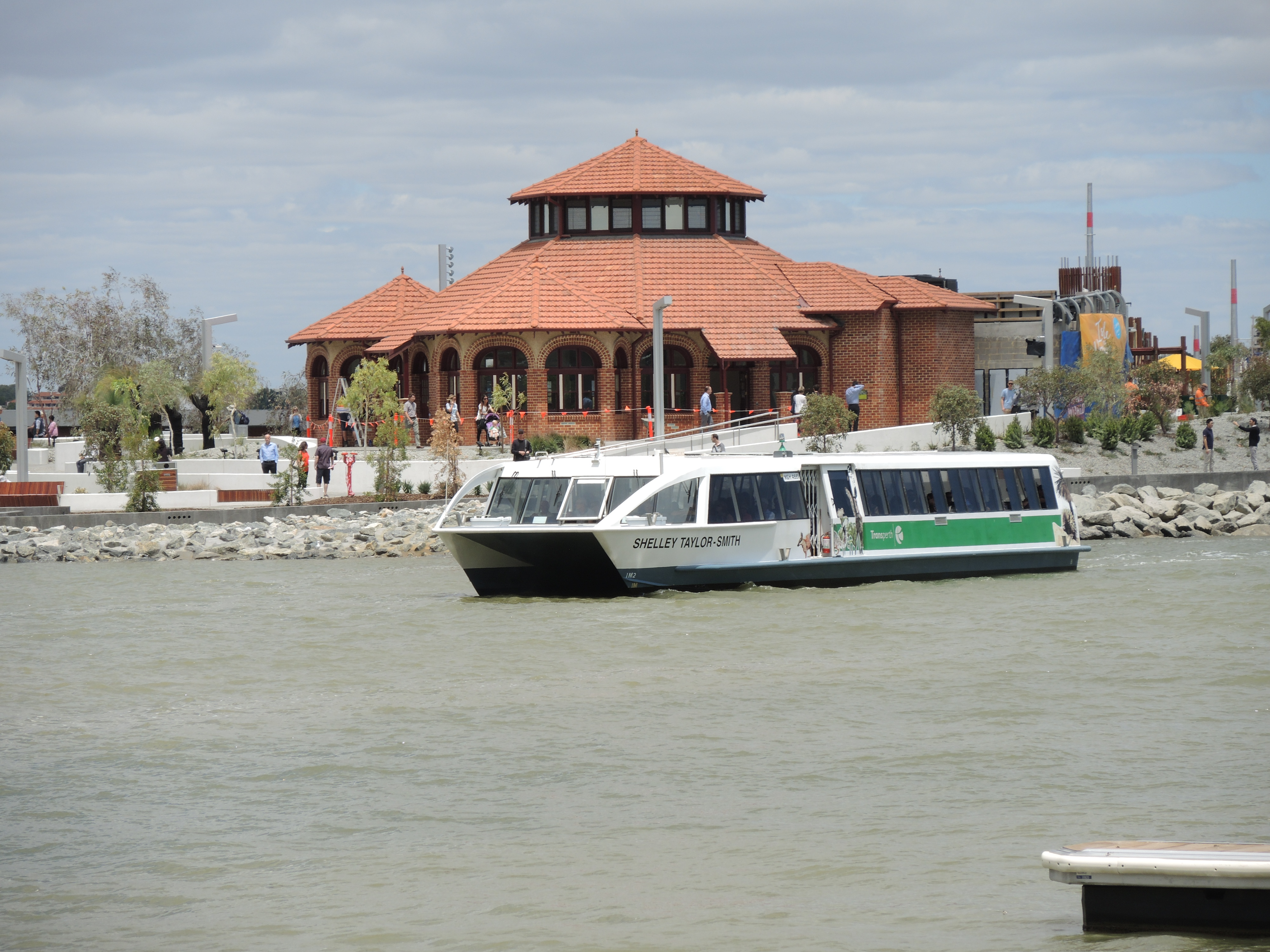 Elizabeth Quay in Perth, Western Australia, 1 February 2016. Transperth Ferry Shelly Taylor-Smith.